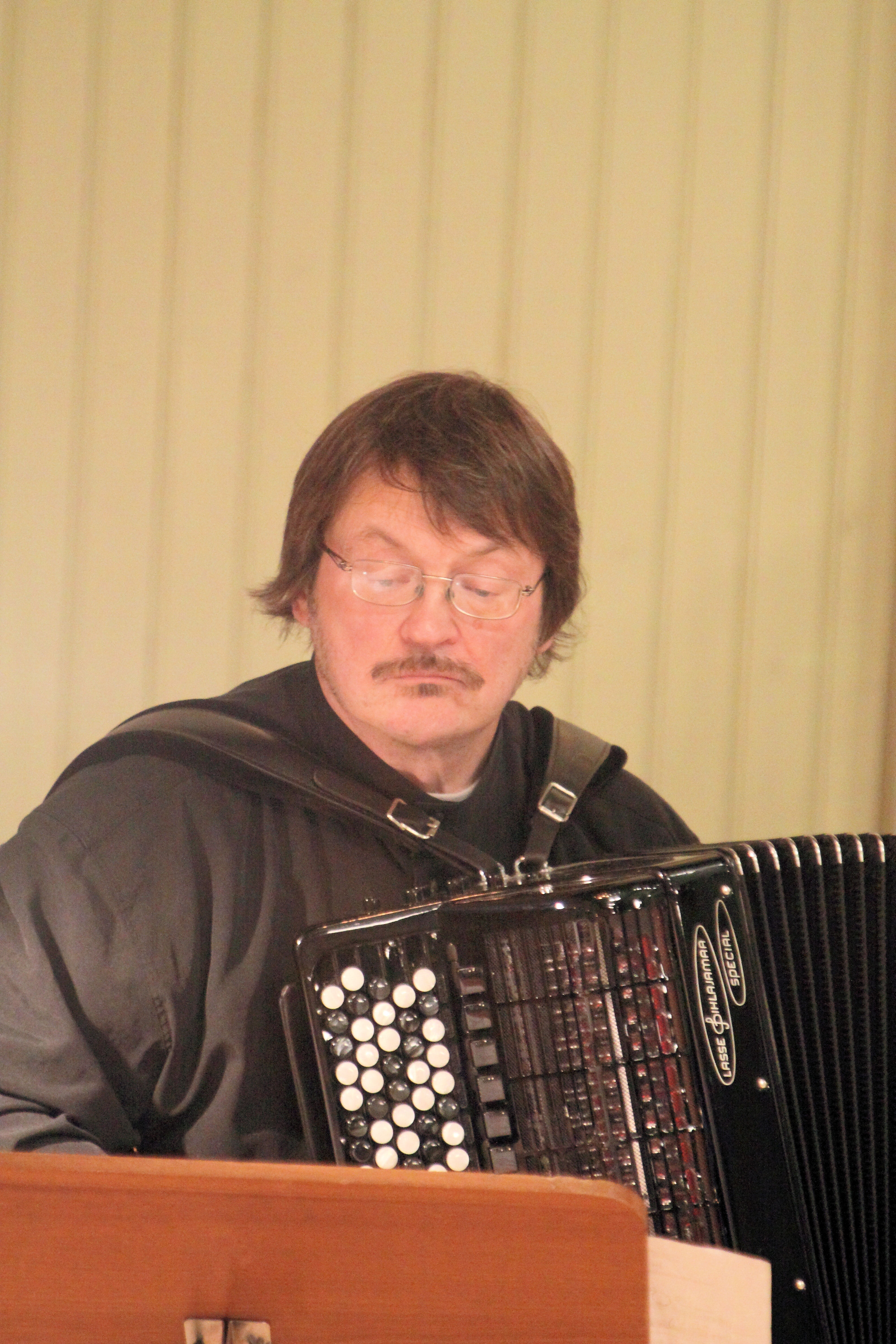 Matti Rantanen finnish accordion player